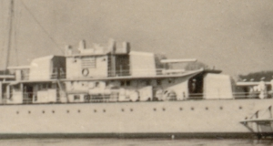 Photograph showing aft three 12.7 cm guns on German destroyer Z 3 Max Schultz.